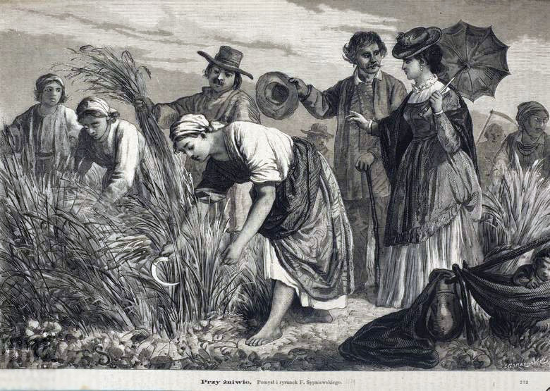 Feliks Sypniewski "While harvesting". Black-and-white reproduction of a woodcut color illustration for "Tygodnik Ilustrowany" weekly magazine, originally published in 1885. It is believed that the Gentleman accompanying the Lady is the painter himself, Feliks Sypniewski.